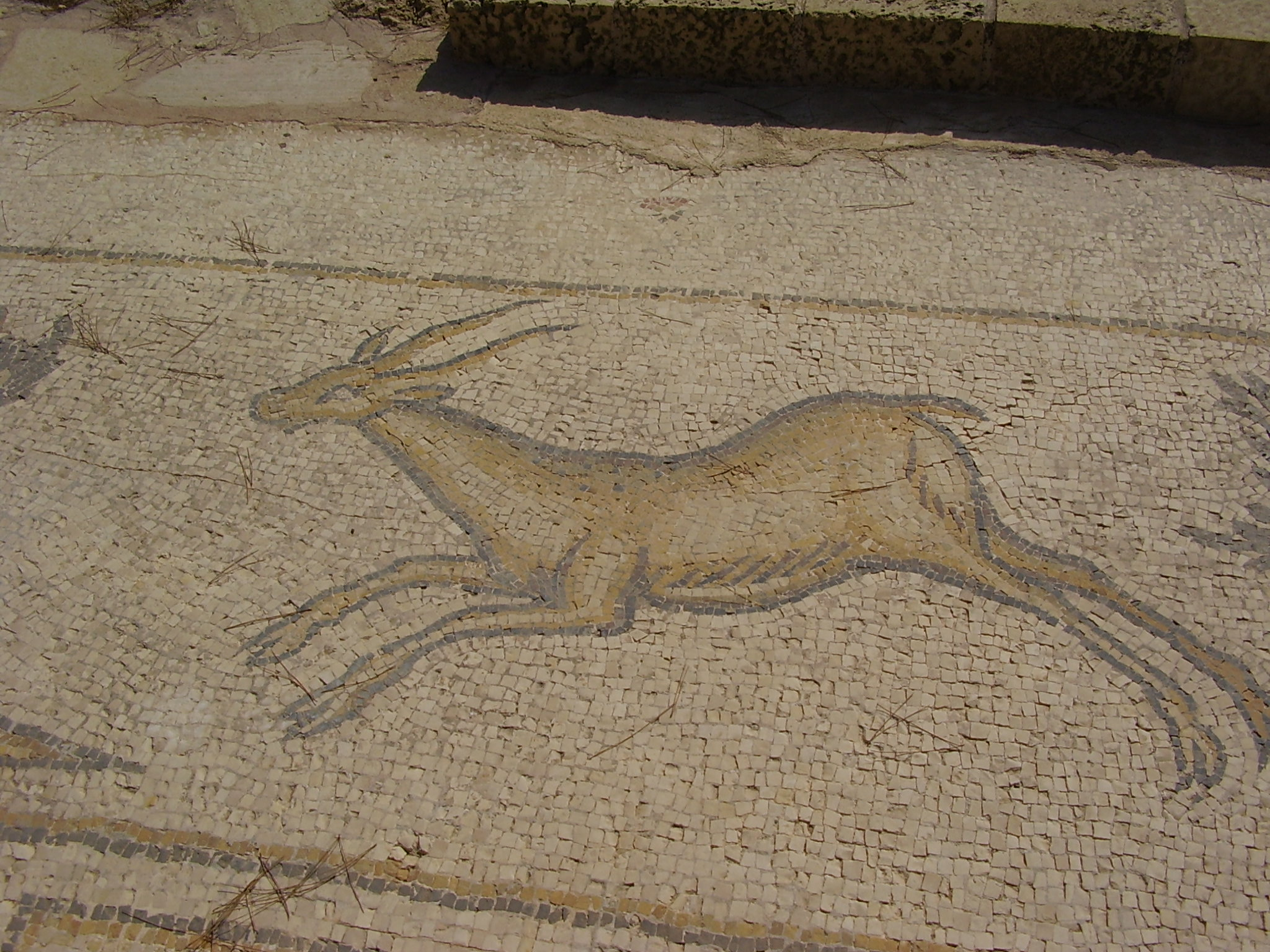 mosaic of a gazelle (byzanthic period), ceasarea, israel